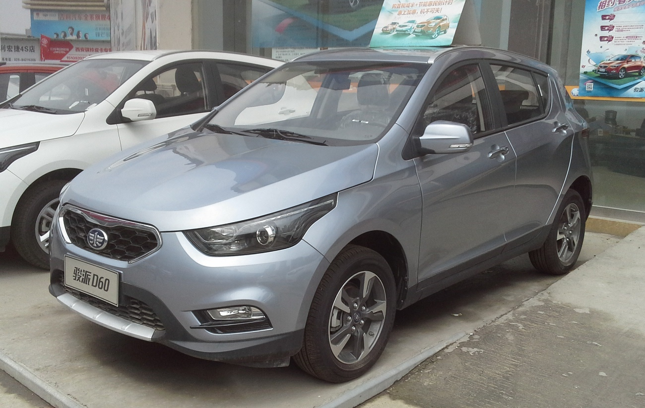 FAW Junpai D60 photographed in Xi'an, Shaanxi province, China.